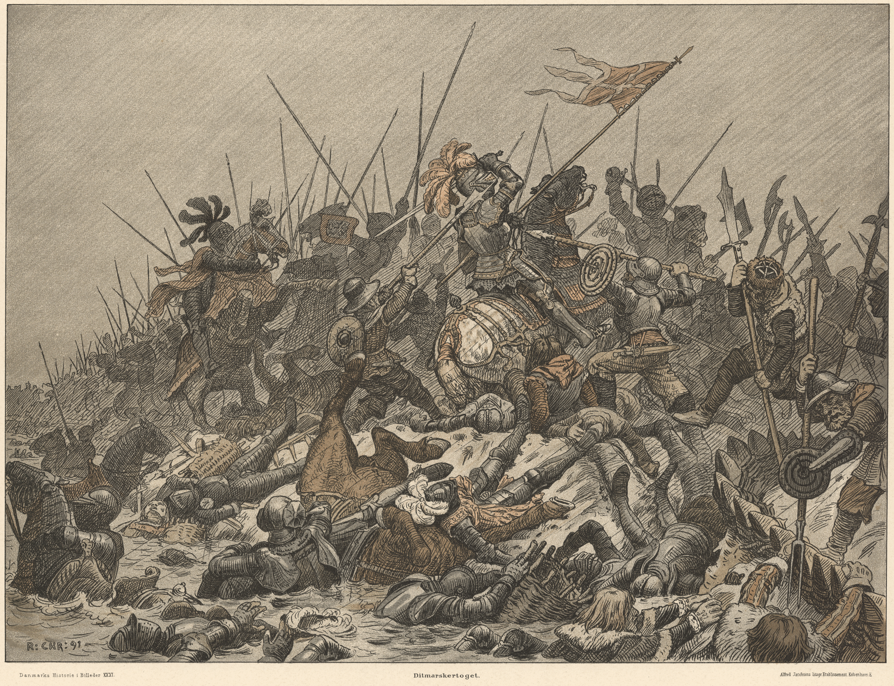 The Danish king John (Hans) invaded the autonomous peasant's republic of Dithmarschen in 1500. The attack failed, and the king narrowly escaped the battle. Colour lithograph on paper, glued on cardboard. Signed lower left: R: Chr: 91. Text: Danmarks Historie i Billeder XXXI, Ditmarskertoget. Alfred Jacobsens litogr. Etablissement, København K. Published in 1898, documented in V.E. Clausen: Folkelig grafik i Skandinavien, 1973, page 144. Cropped by uploader.